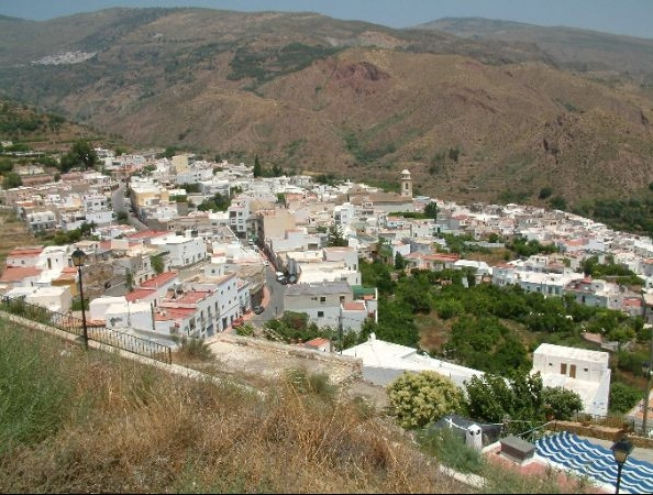 Canjáyar (Almería, Spain)